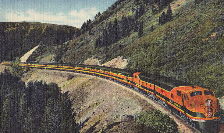 Postcard photo of the Great Northern Railway's "Empire Builder" on the border of Glacier National Park in Montana.